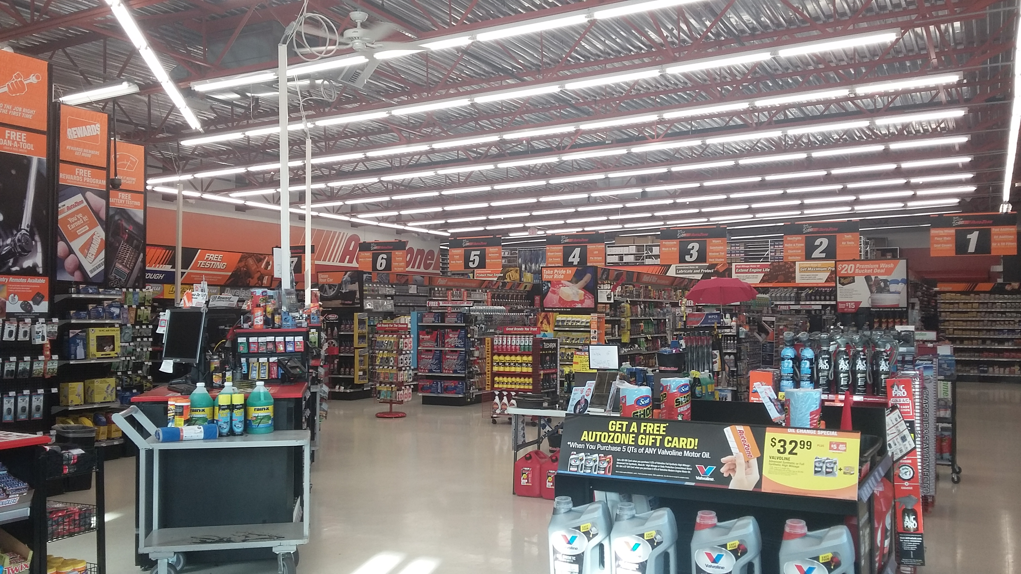 This is the interior of AutoZone store 3816 in North Port, Florida, taken from the front entrance.